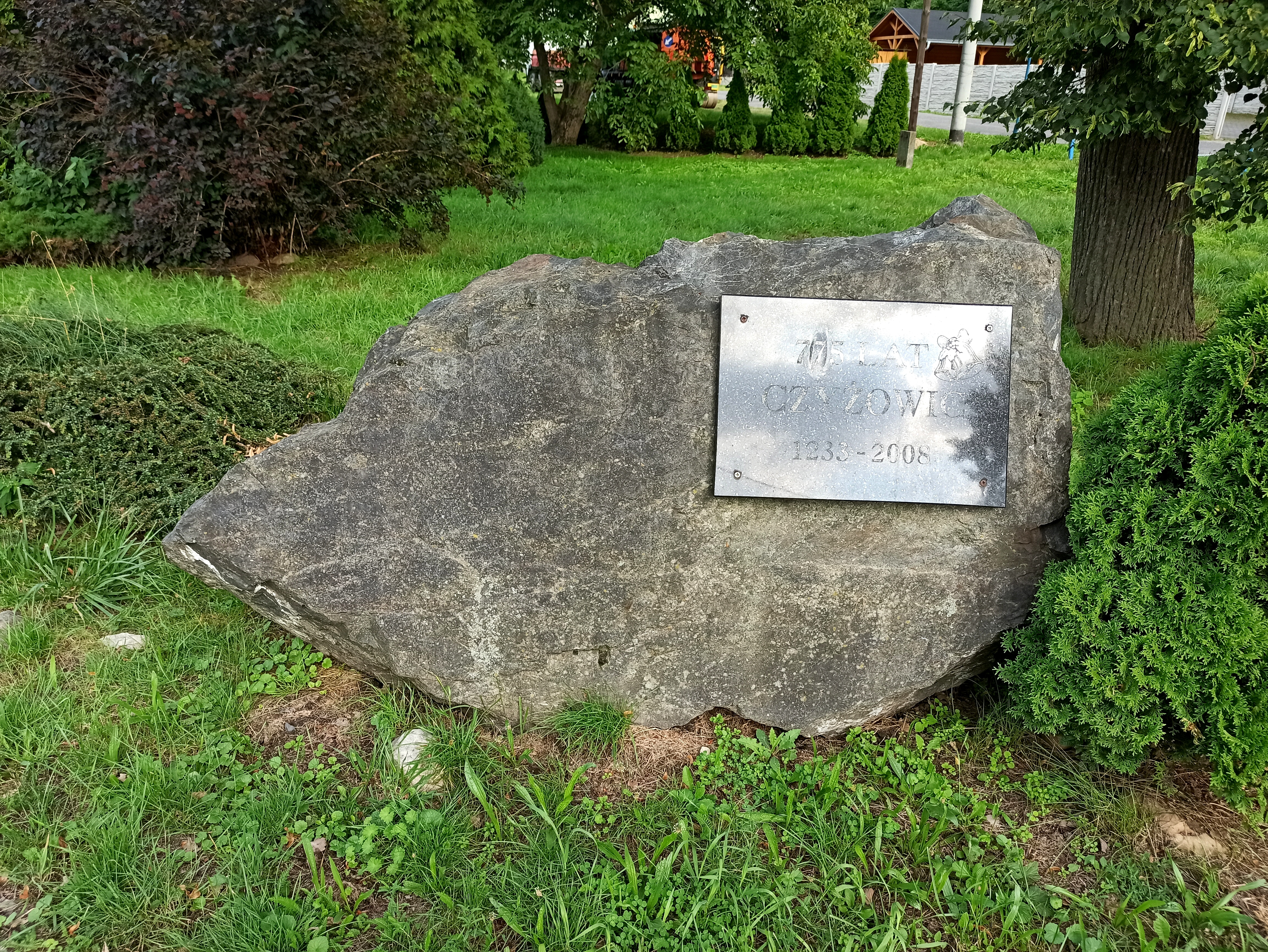 Czyżowice, Opole Voivodeship, Poland.